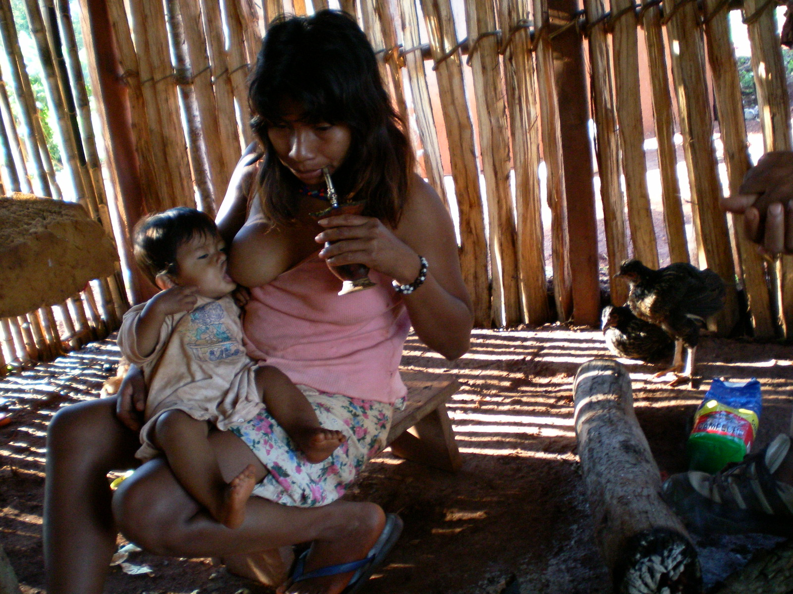 Guarani mother in Yiriapu (Misiones-Argentina)